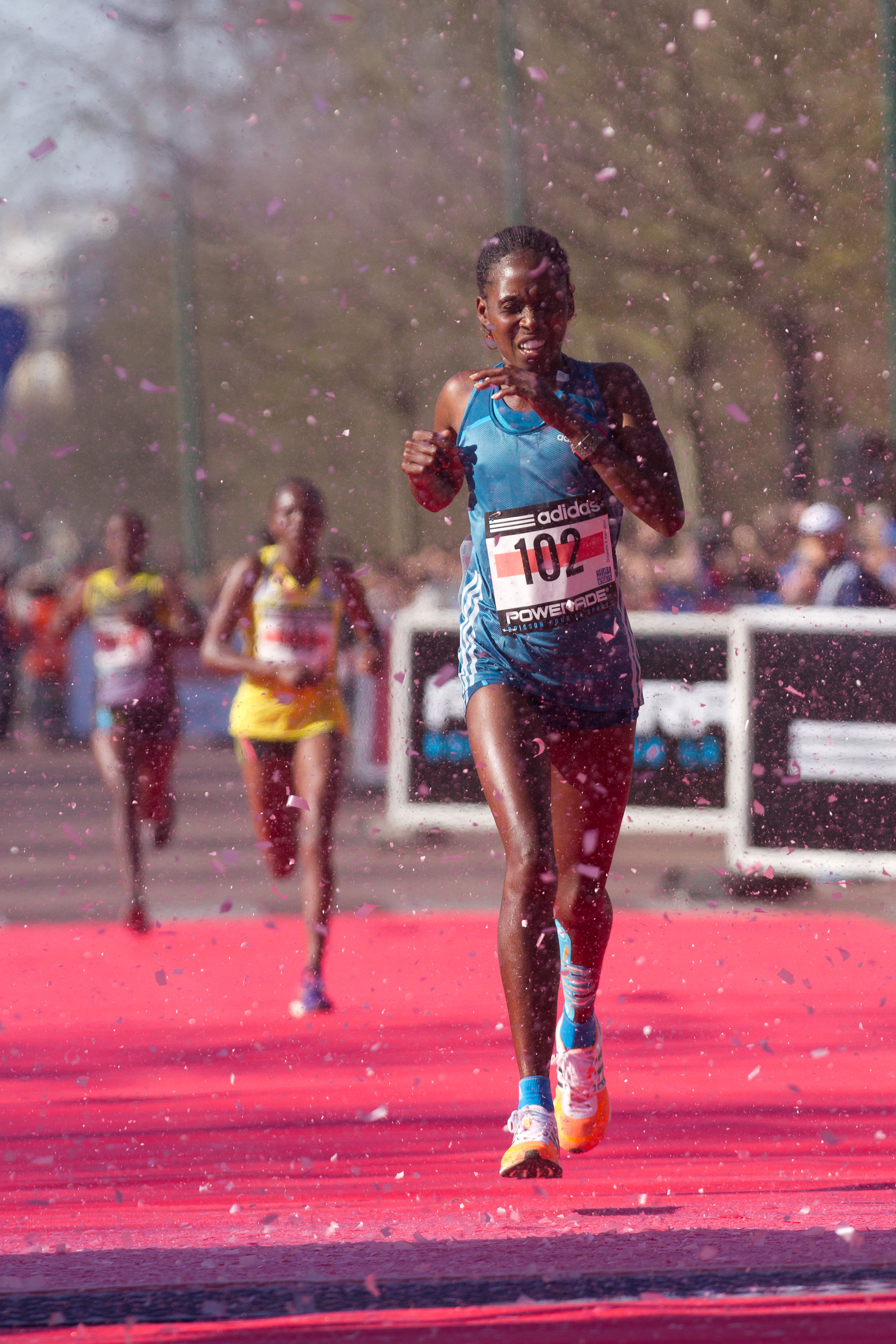 Sarah Chepchirchir, 3rd of the Paris Half Marathon 2014.